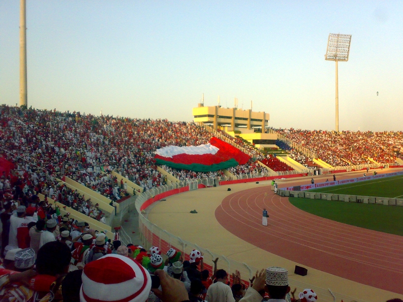 Football is the favorite sport in Oman - Crowds came out in thousands to cheer for the Omani Football Team when Muscat hosted the 19th Gulf Cup of Nations